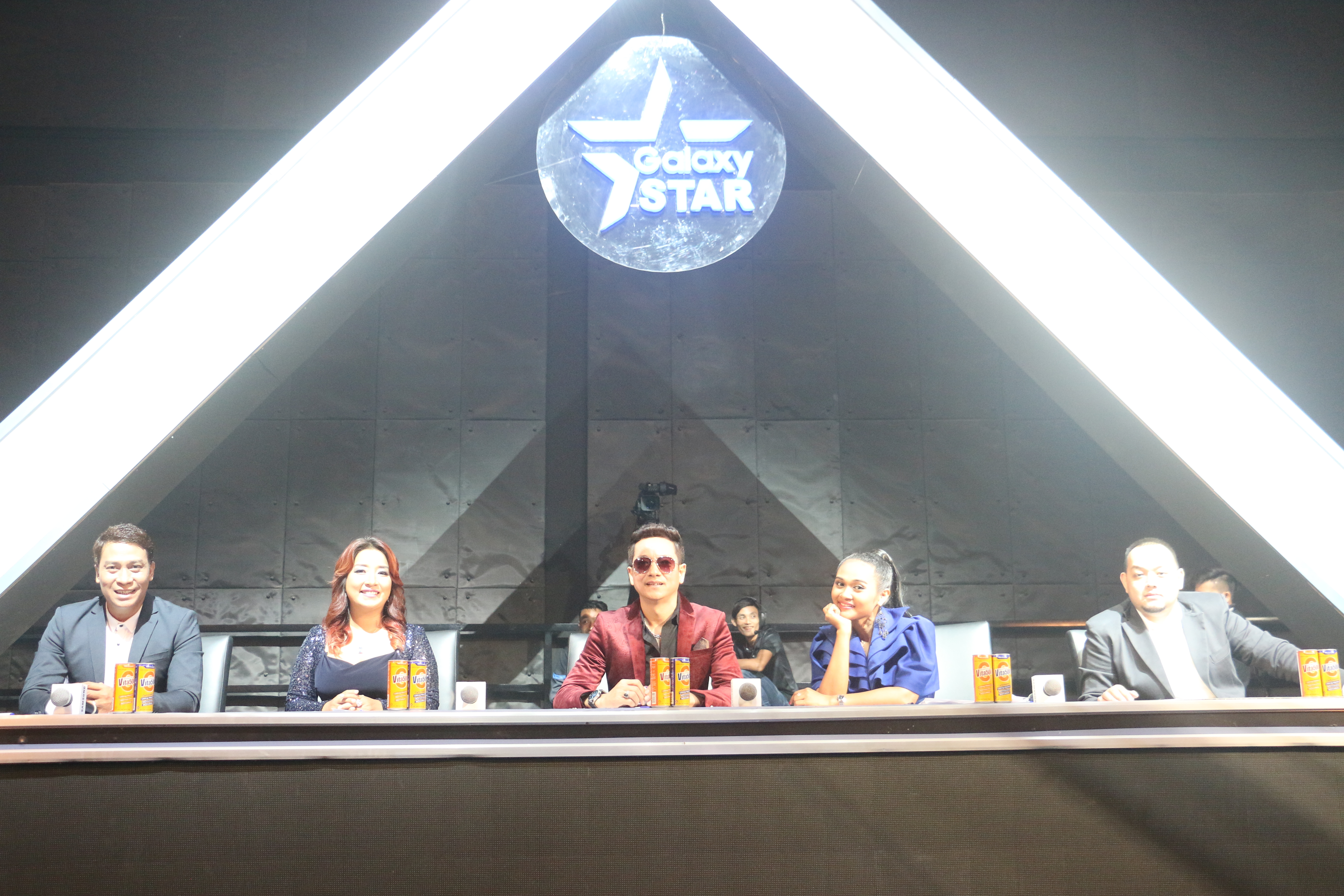 Galaxy Star 2017 Judges